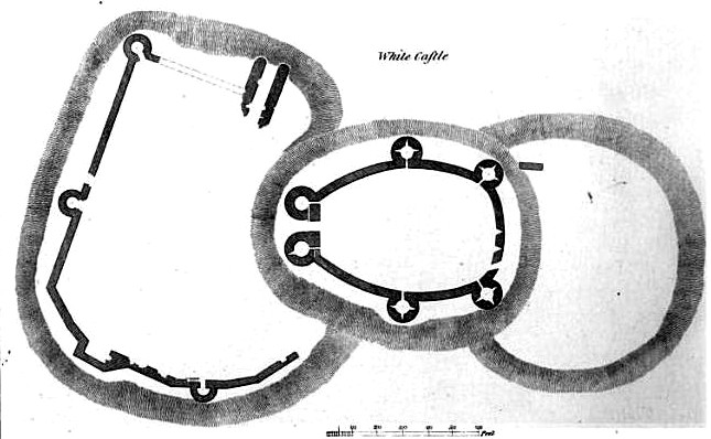 1801 plan of White Castle